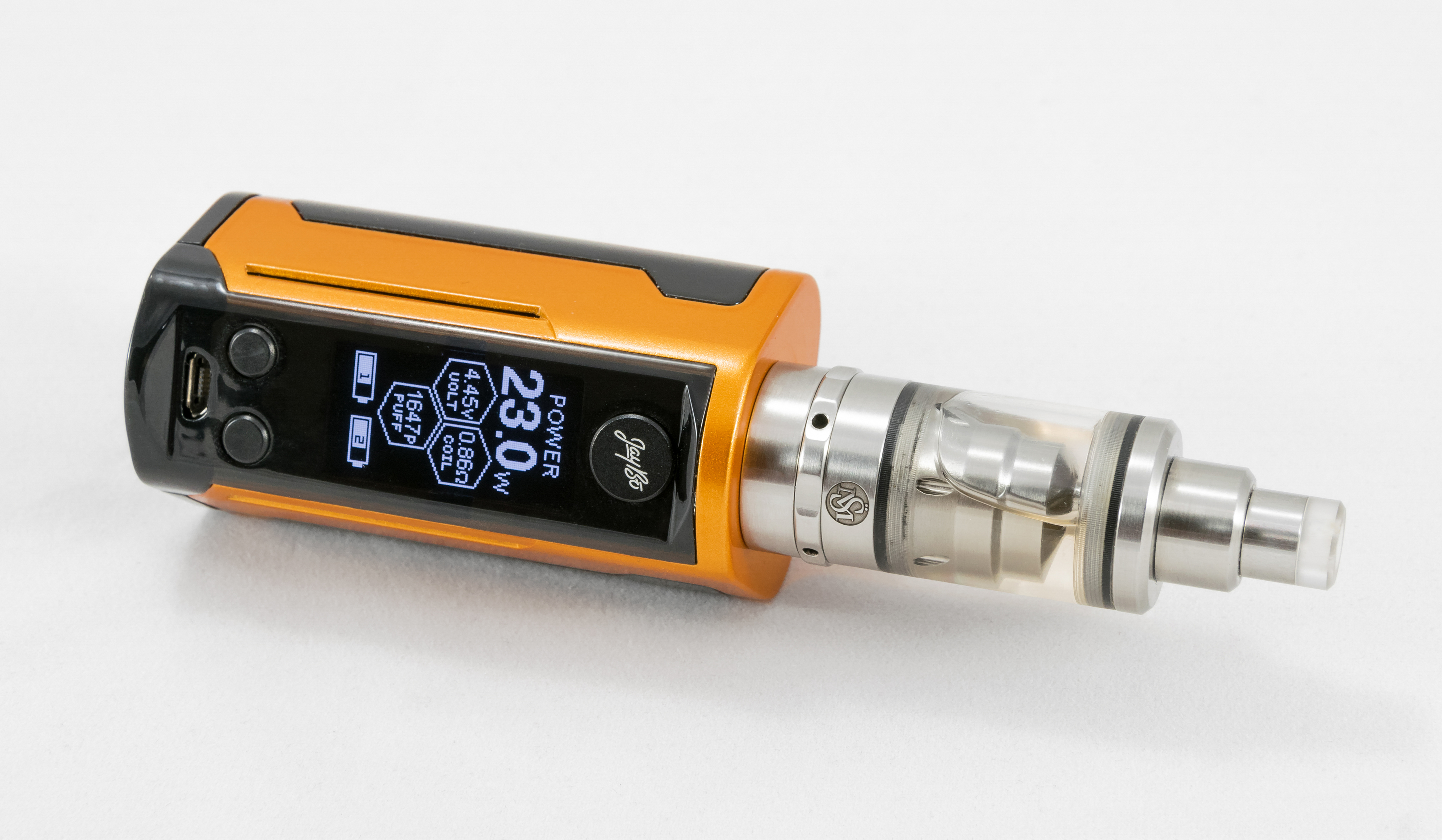 Electronic cigarette: box mod Wismec Reuleaux RX GEN3 and vaporizer SvoëMesto Kayfun V4